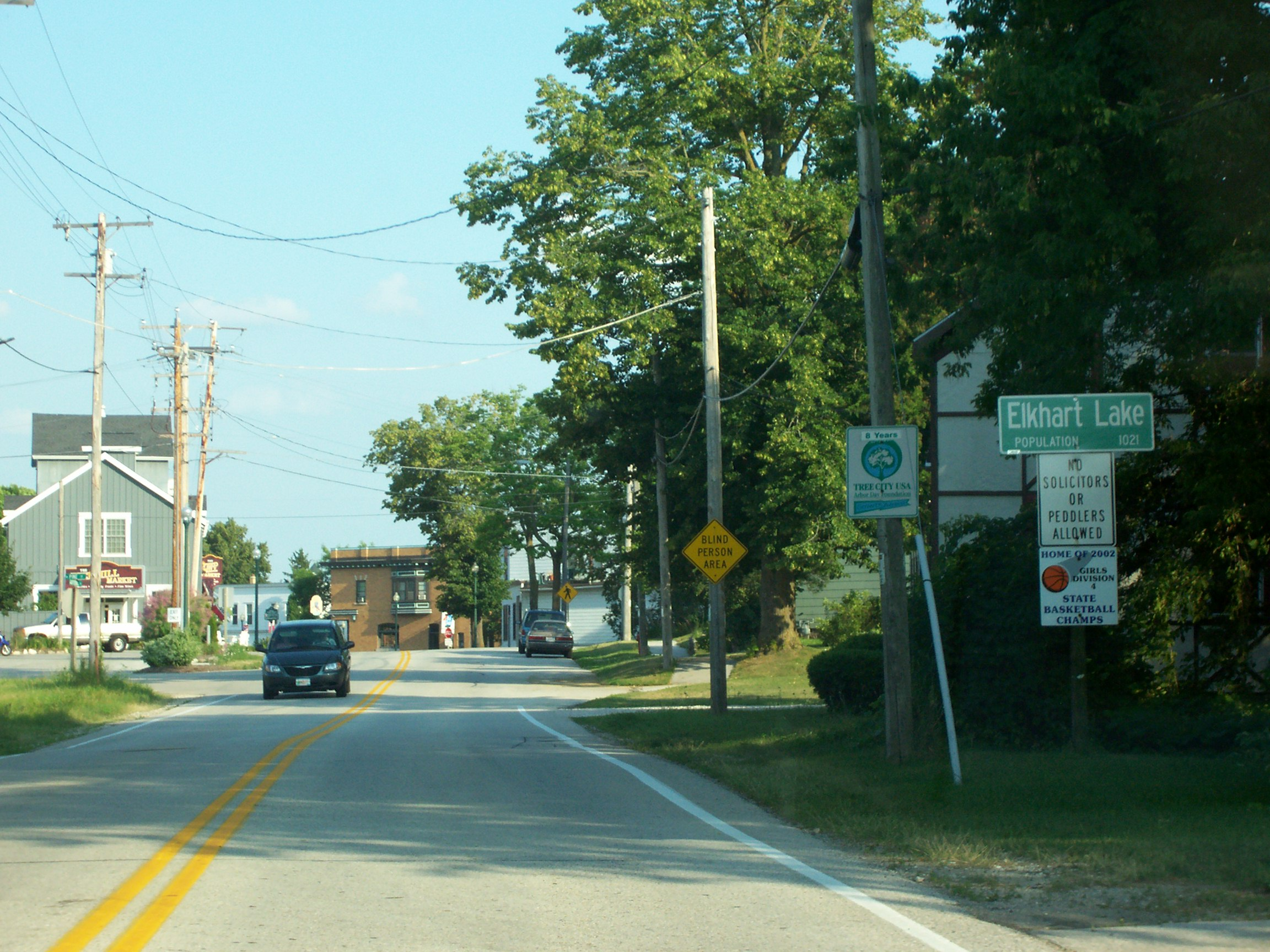 Looking south at the DOT sign and downtown Elkhart Lake, Wisconsin, USA while traveling on County Highway J/Kettle Moraine Scenic Drive. The location was part of the original circuit in 1950 that later became Road America.